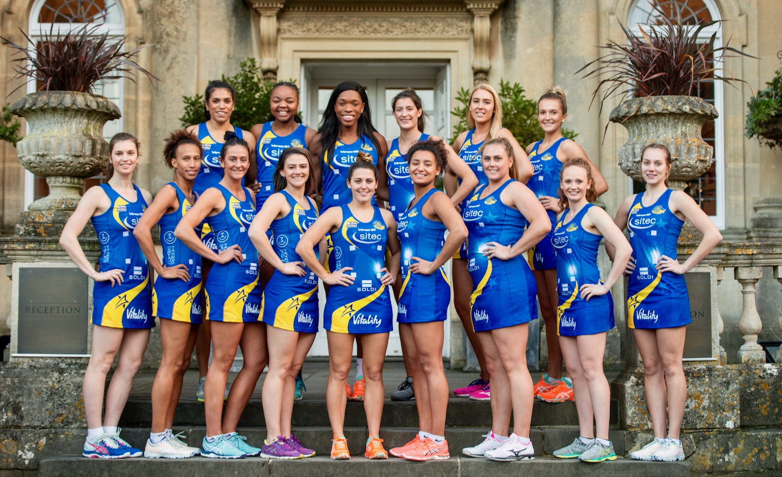 The Team Bath Netball squad for the 2019 Vitality Superleague season